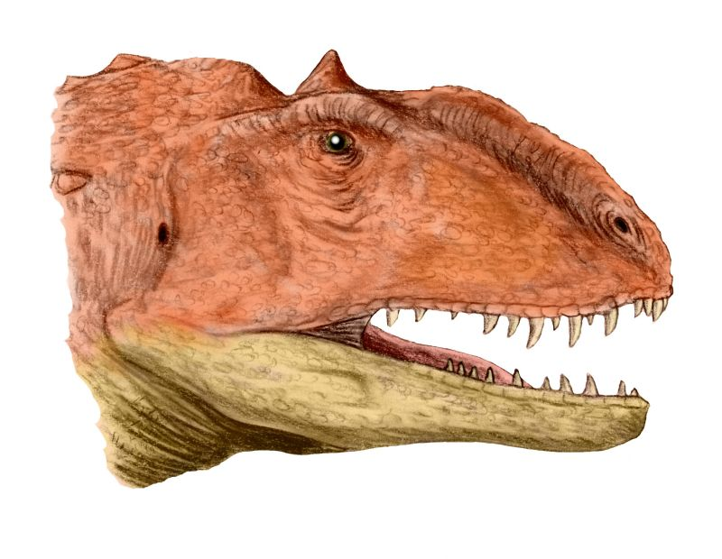 Head of Majungasaurus crenatissimus, an abelisaur from the Late Cretaceous of Madagascar, pencil drawing